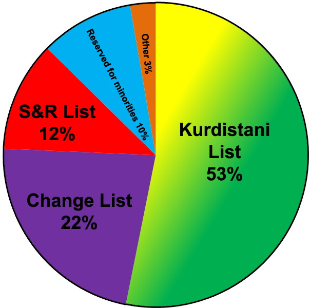 The results of the Iraqi Kurdistan legislative election, 2009 in a pie chart.